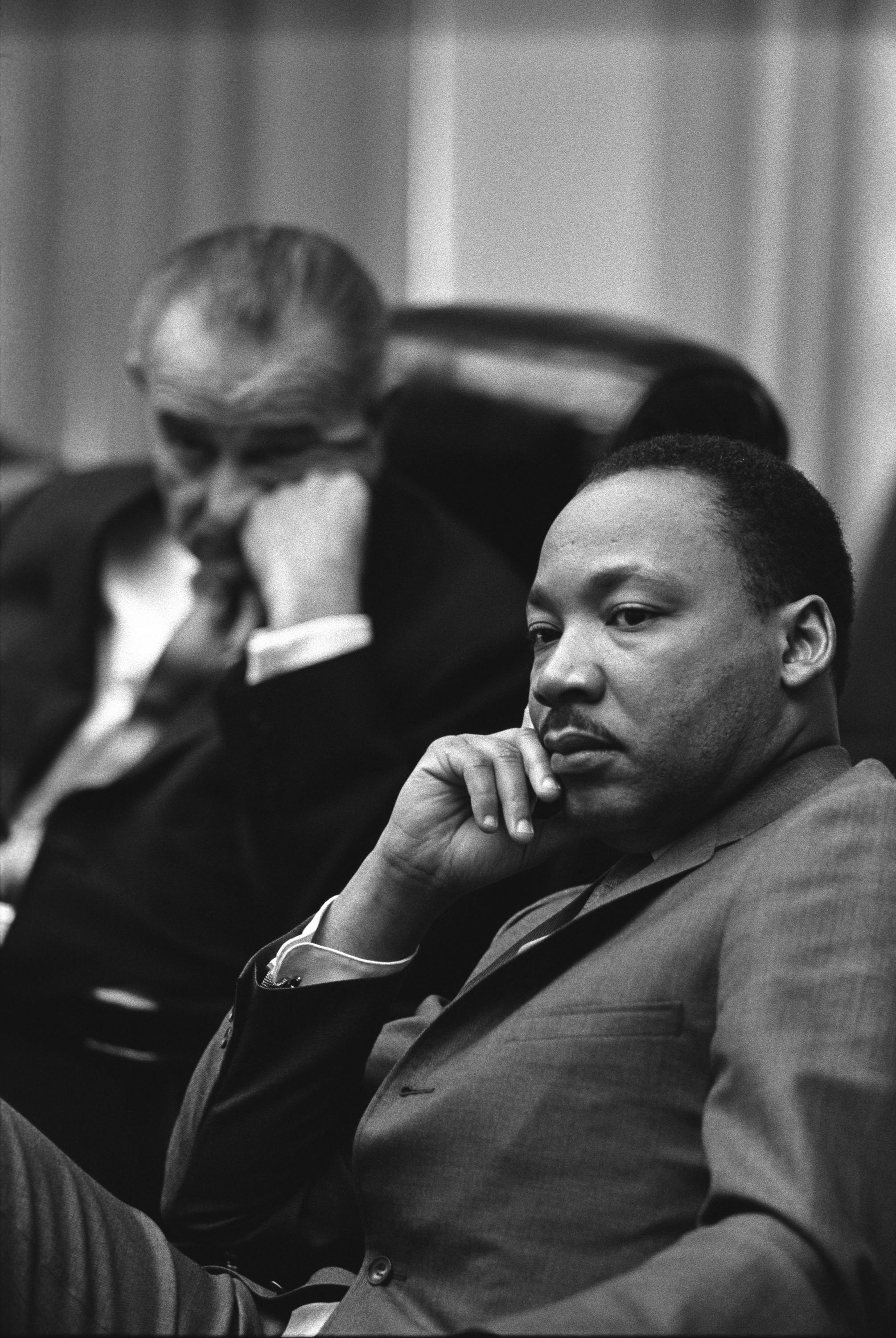 President Lyndon B. Johnson and Rev. Dr. Martin Luther King, Jr. meet at the White House, 1966